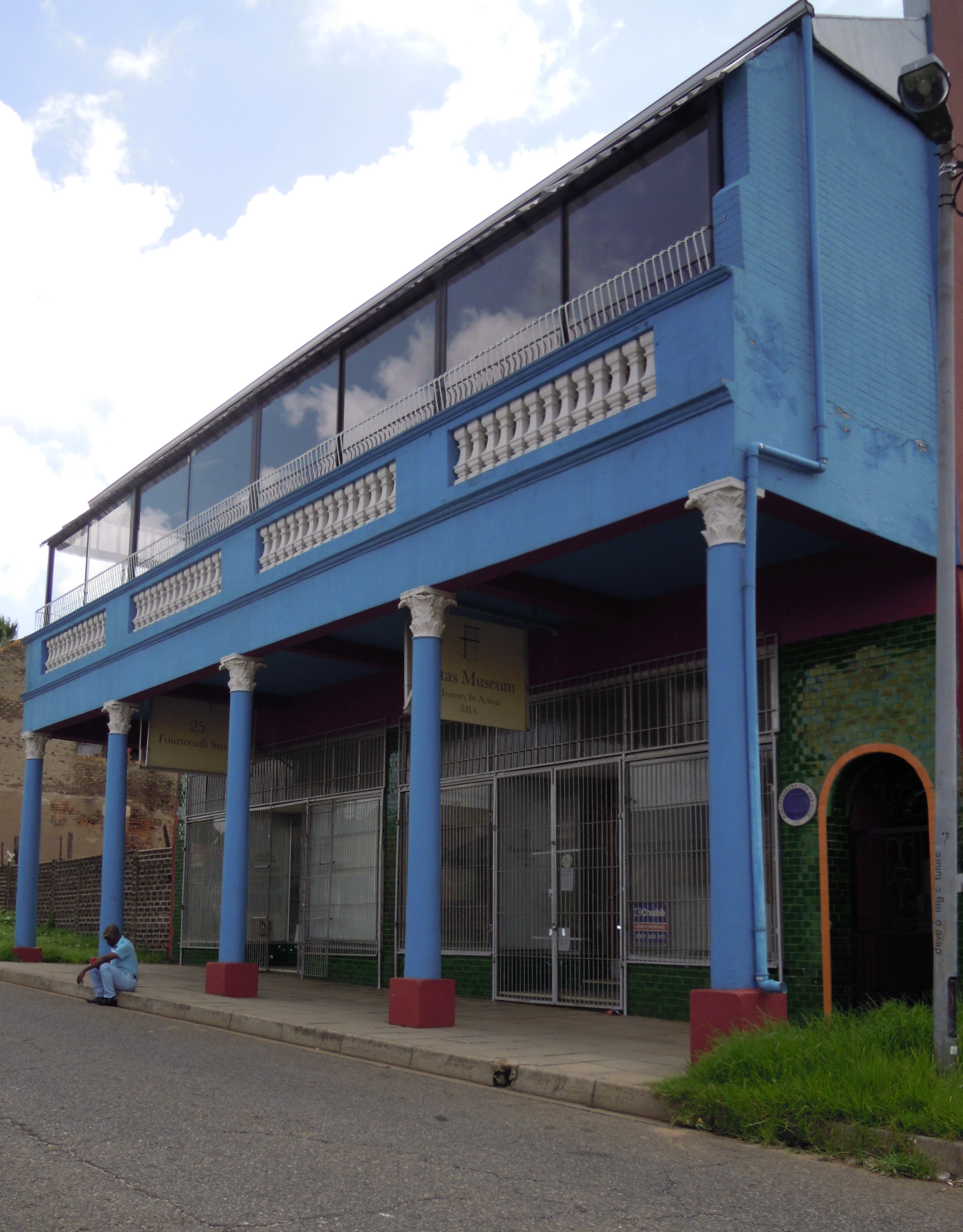 The Fietas Museum is situated in Johannesburg, South Africa. Most of the houses in the suburb was demolished by the government to remove the Indian trader and build houses for Europeans in 1970's